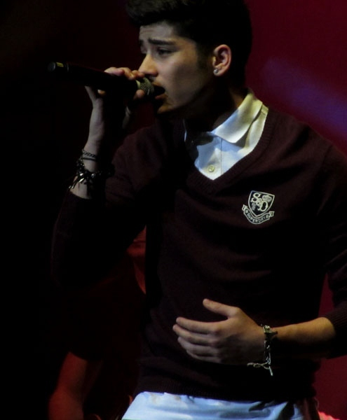 One Direction, Clyde Auditorium, Glasgow, Saturday 14 January 2012